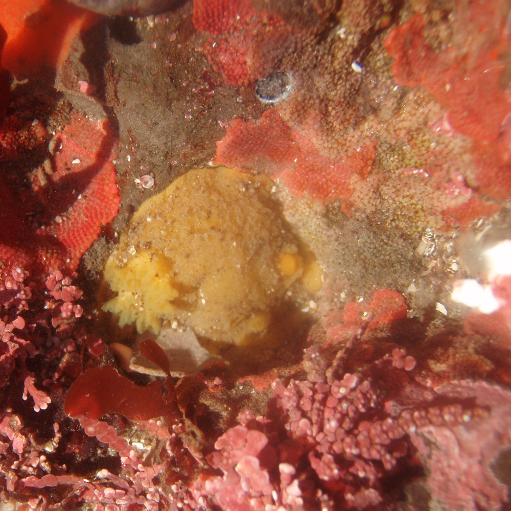 Sea Lemon,Geitodoris heathi in Tide Pools